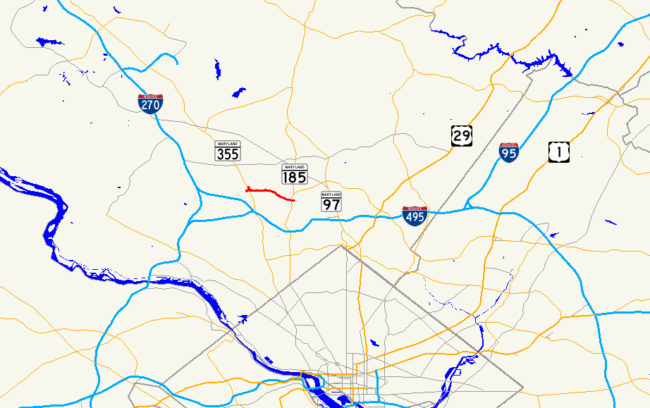 Map of Maryland Route 547